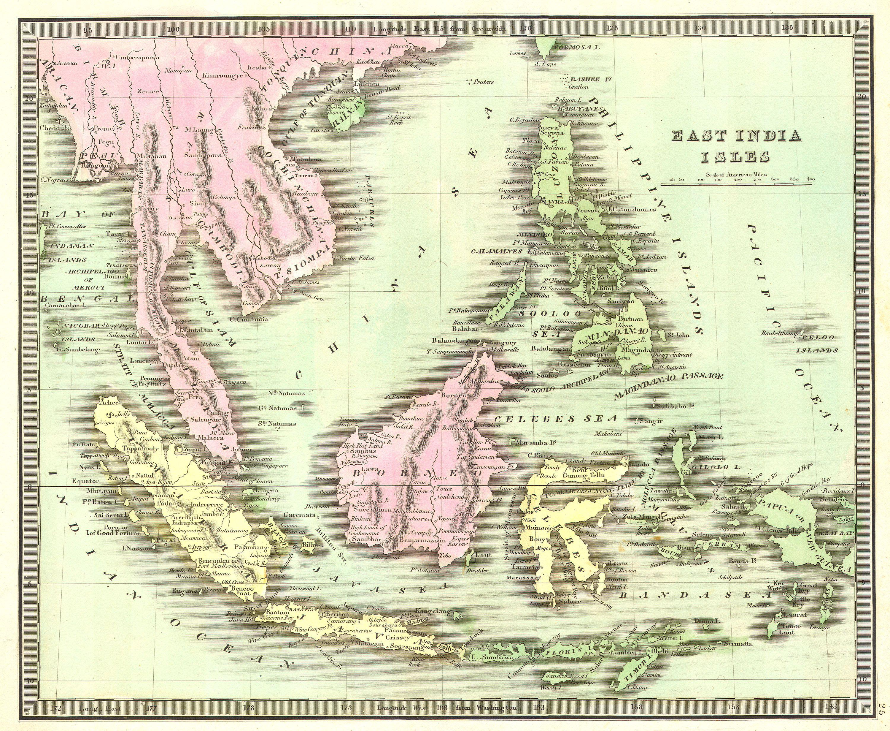 This hand colored map is a lithographic engraving of the East Indies, dating to 1842. Depicts all of Southeast Asia and the East Indies including Sumatra, Java, Borneo and the Philippines. On the mainland it shows the Kingdoms of Siam (Thailand), Tonquin (Vietnam), Malaya, and Cambodia. Also depicts the island city of Singapore. Like most Greenleaf maps, this is undated.